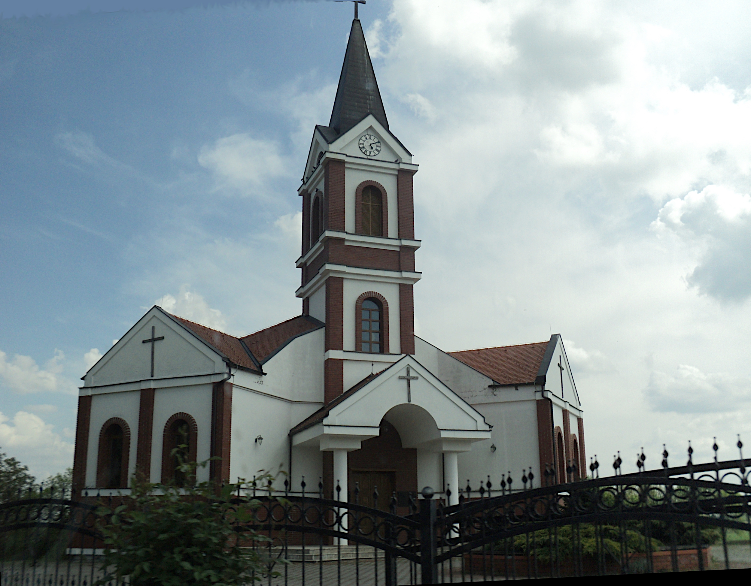 Catholic church in Suza, Kneževi Vinogadi Municipality.